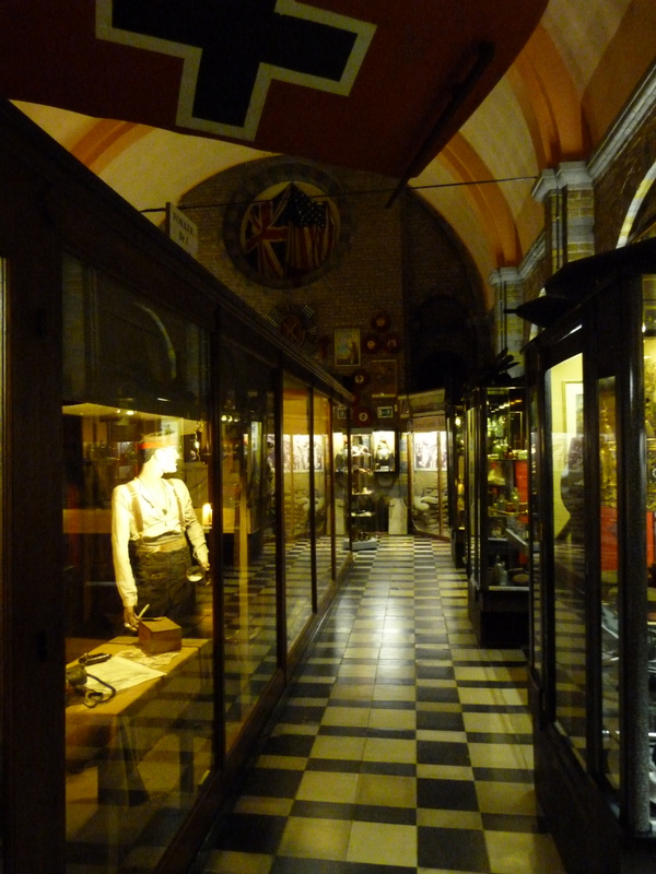 Hooge Crater Museum